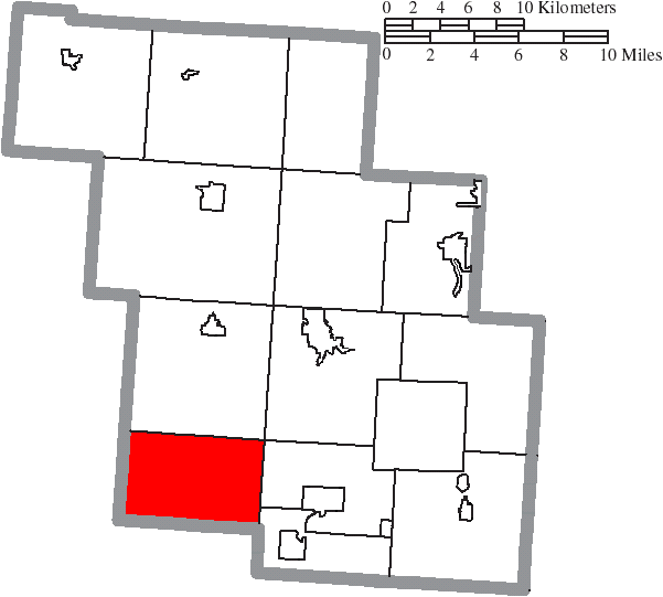 Map of the municipal and township boundaries of Perry County, Ohio, United States, as of the 2000 census, with the location of Monday Creek Township highlighted. Township borders are shown only in unincorporated areas in order to differentiate incorporated and unincorporated areas more clearly.